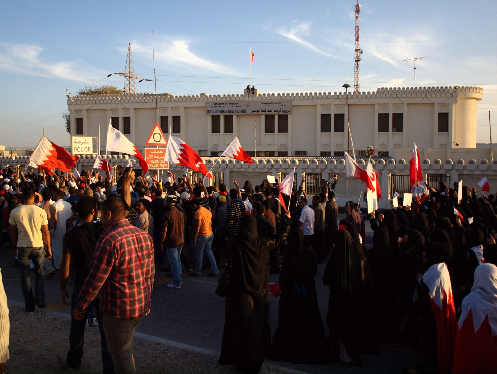 Atop the nearby police station, men in street clothes used high-powered cameras to snap photographs of protesters.